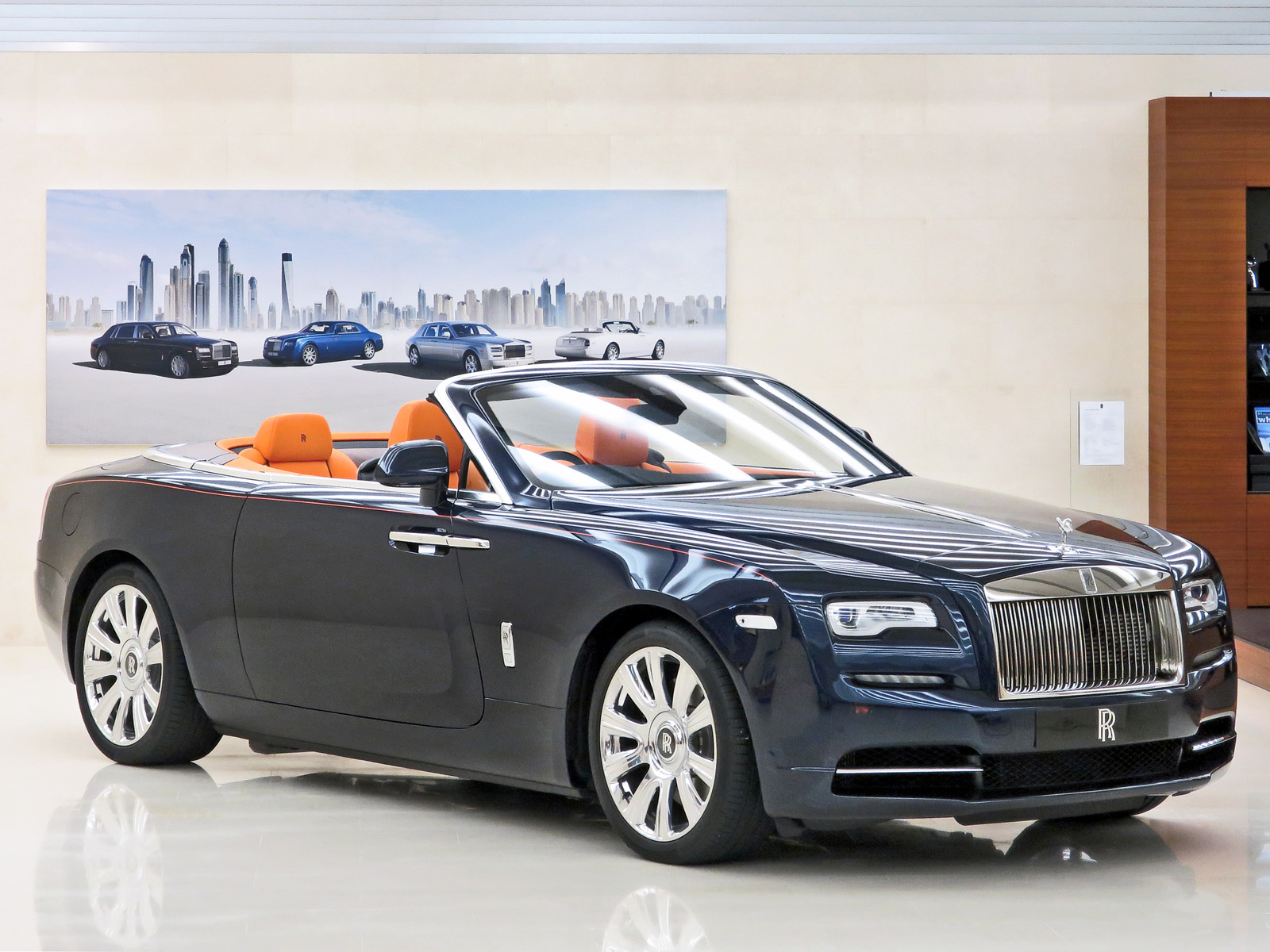 A local-spec MY2016 Dawn on display at RRHK showroom